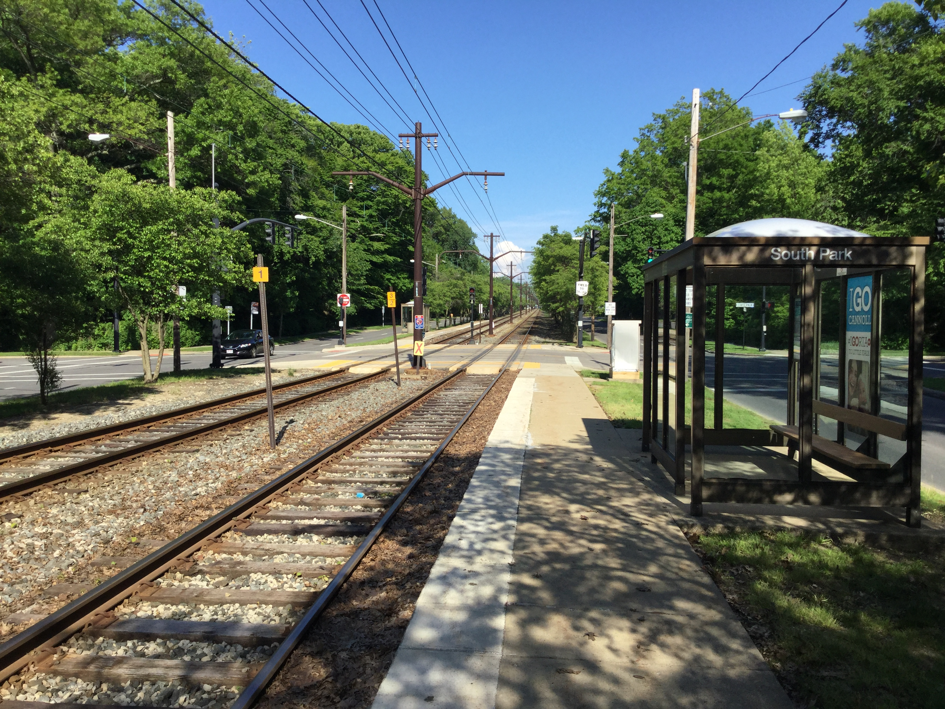 RTA station